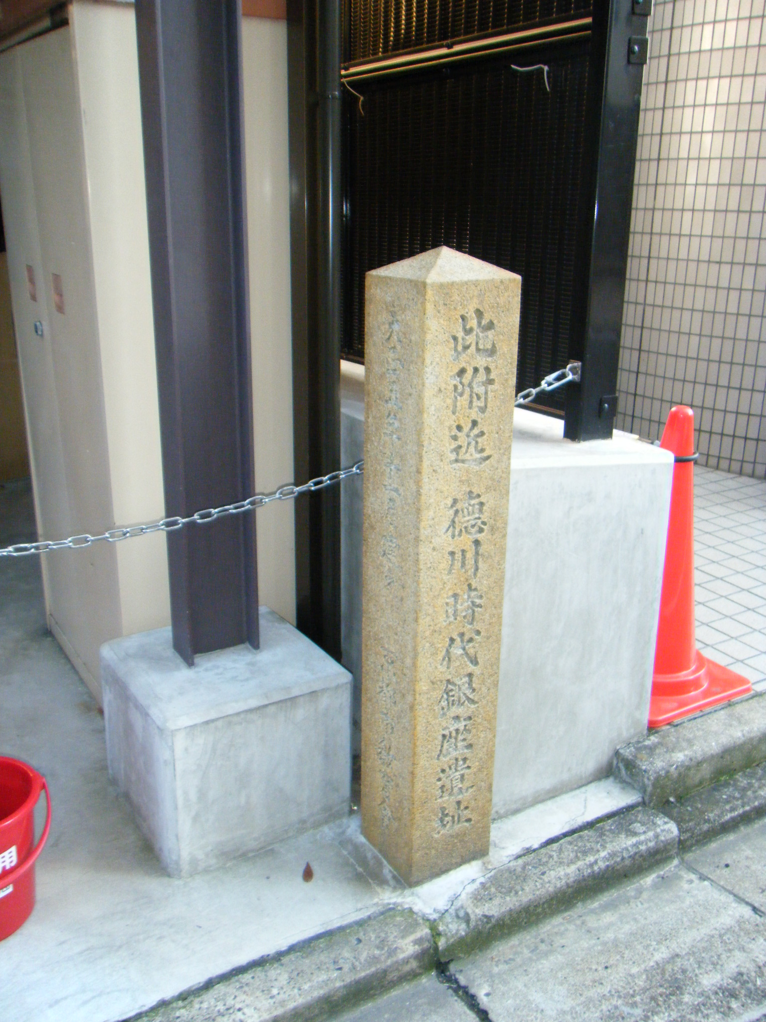 Kyoto-ginza